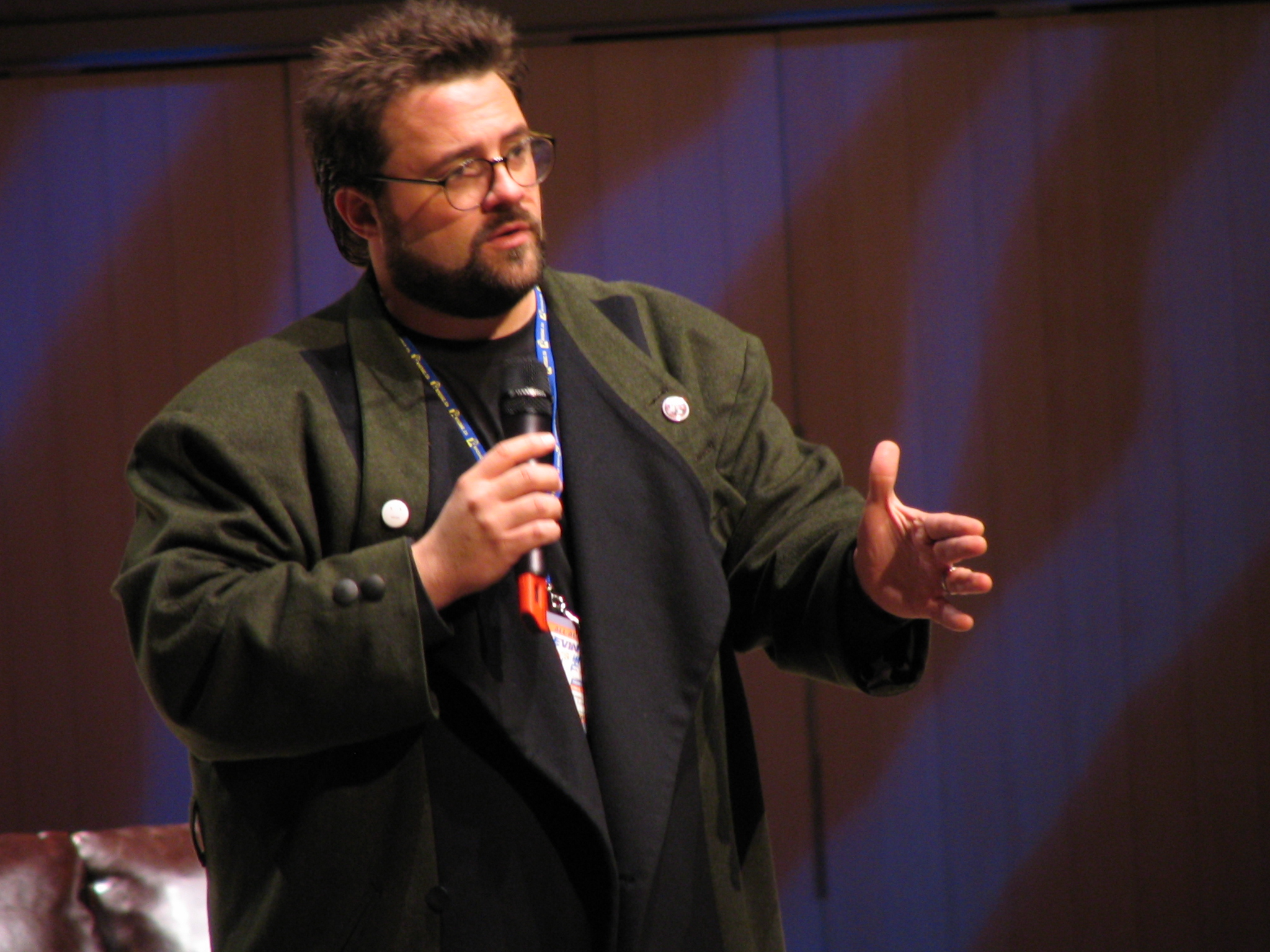 Kevin Smith in Toronto